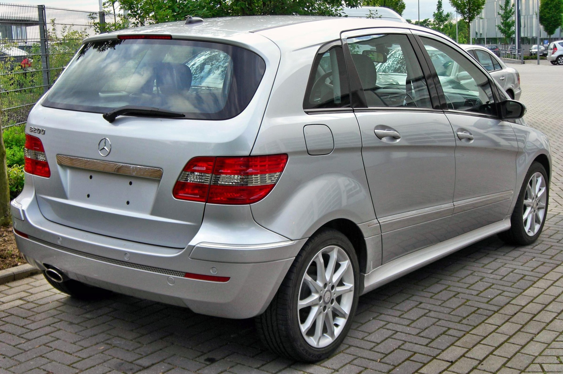 Mercedes B 200 (T 245)